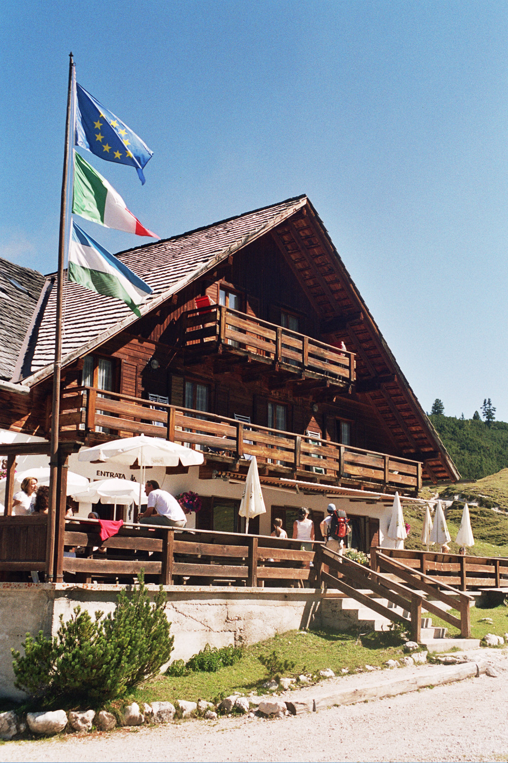 Mountain refuge "Fodara Vedla" in South Tyrol with flags of Europe, Italy and Ladinia